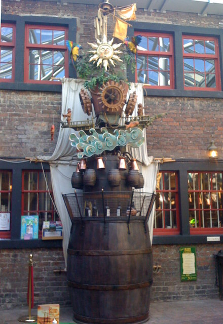 Clock at the Rum Story The Kinetic Clock ticks away mechanically representing the story of rum from sugar cane to bottle.